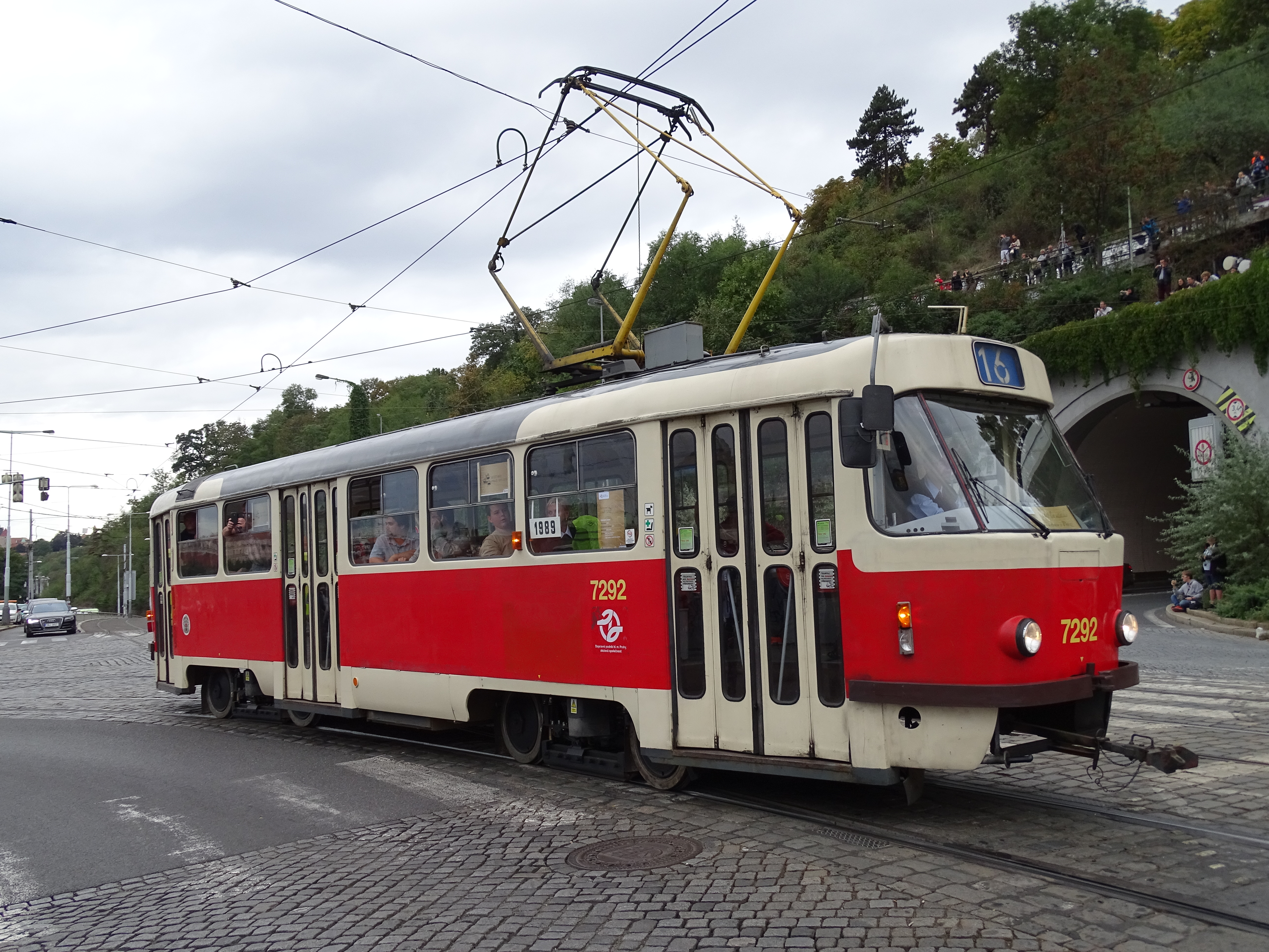 Prague-Holešovice, Czech Republic. Nábřeží Kapitána Jaroše, a tram parade, tram Tatra T3SUCS #7292.